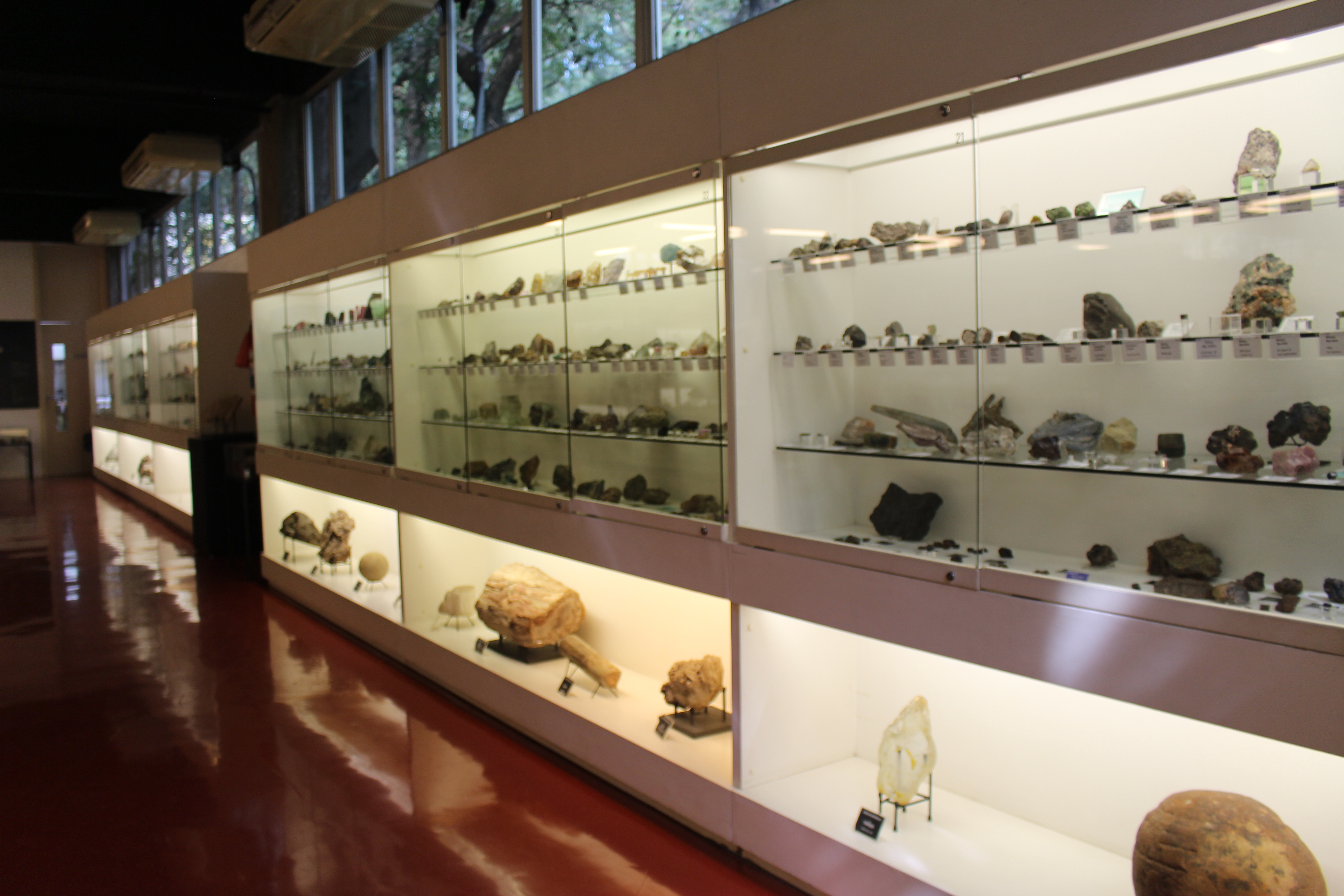 Shelves with rocks and minerals - Museum of Geosciences of the Institute of Geosciences of USP